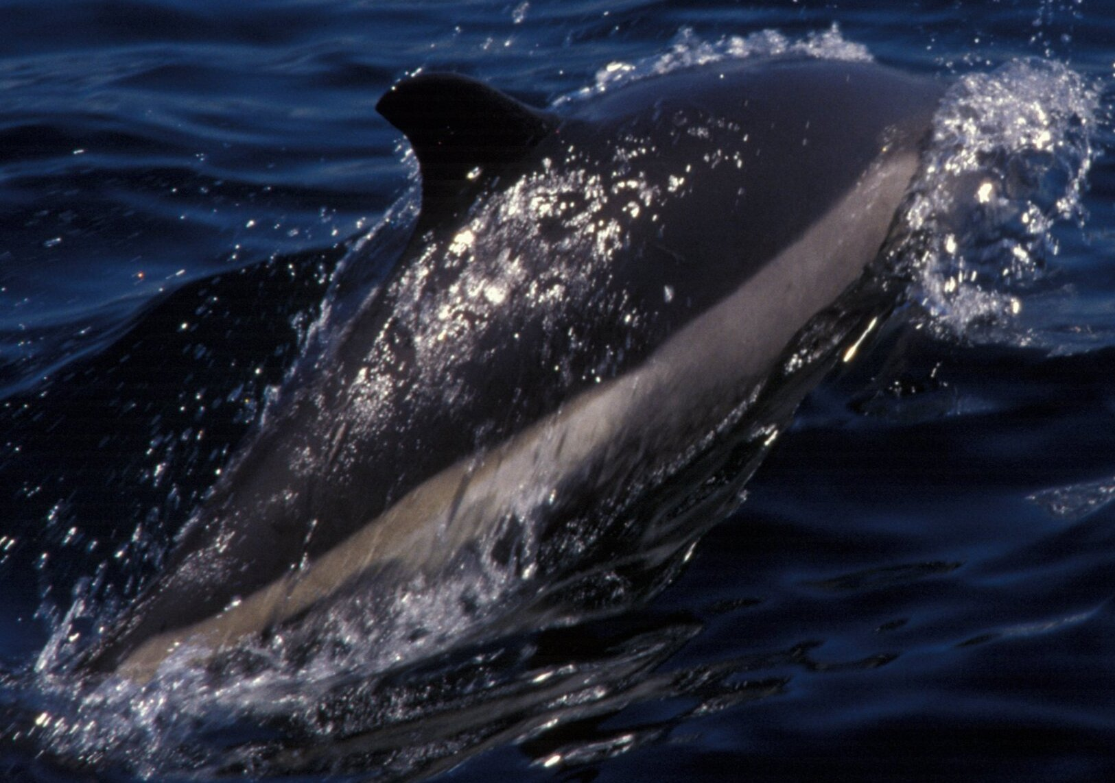 Atlantic white-sided dolphin